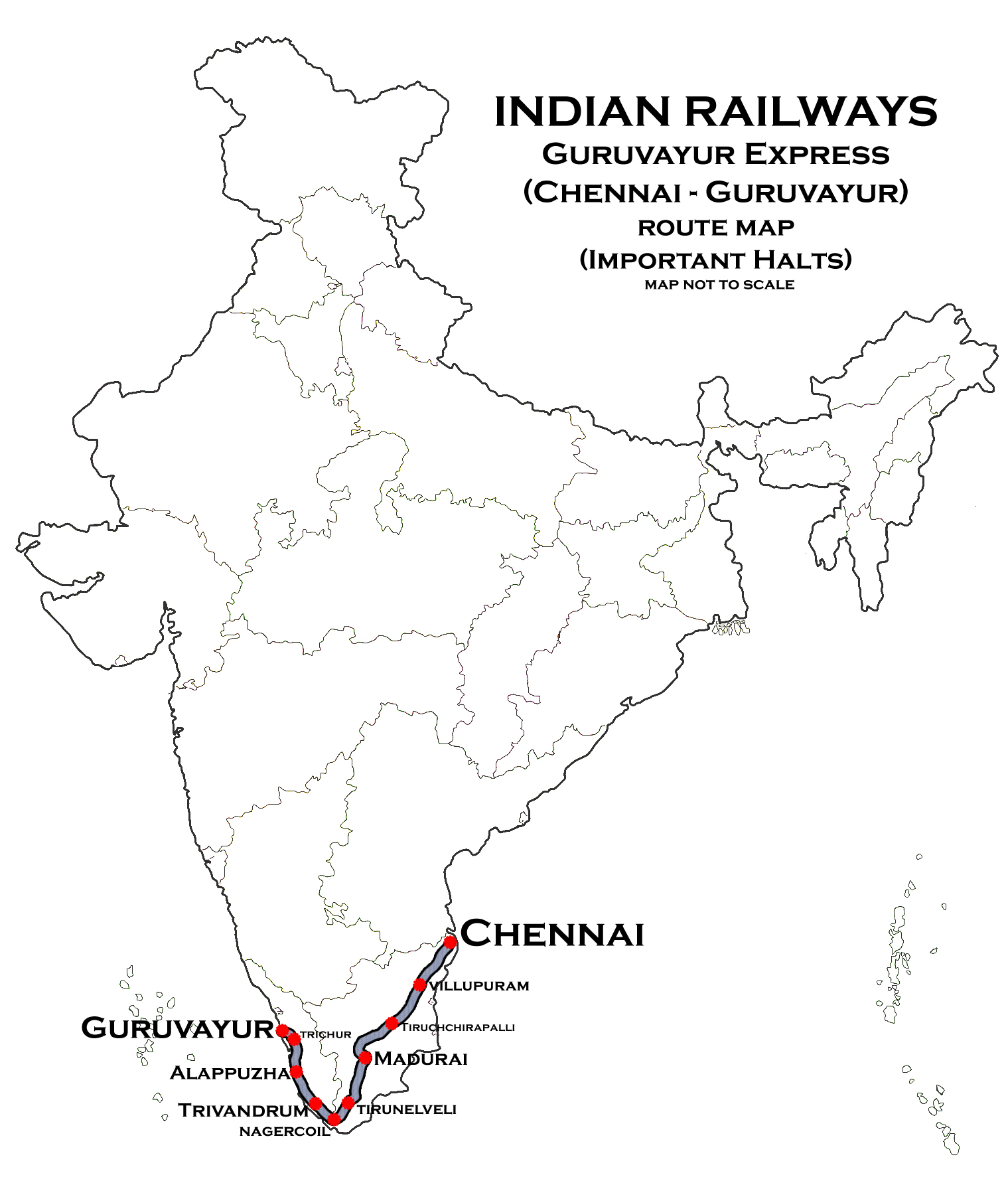 (Guruvayur- Chennai) Express Route map. This train runs via Trichy, Madurai, Trivandrum, Allappuza